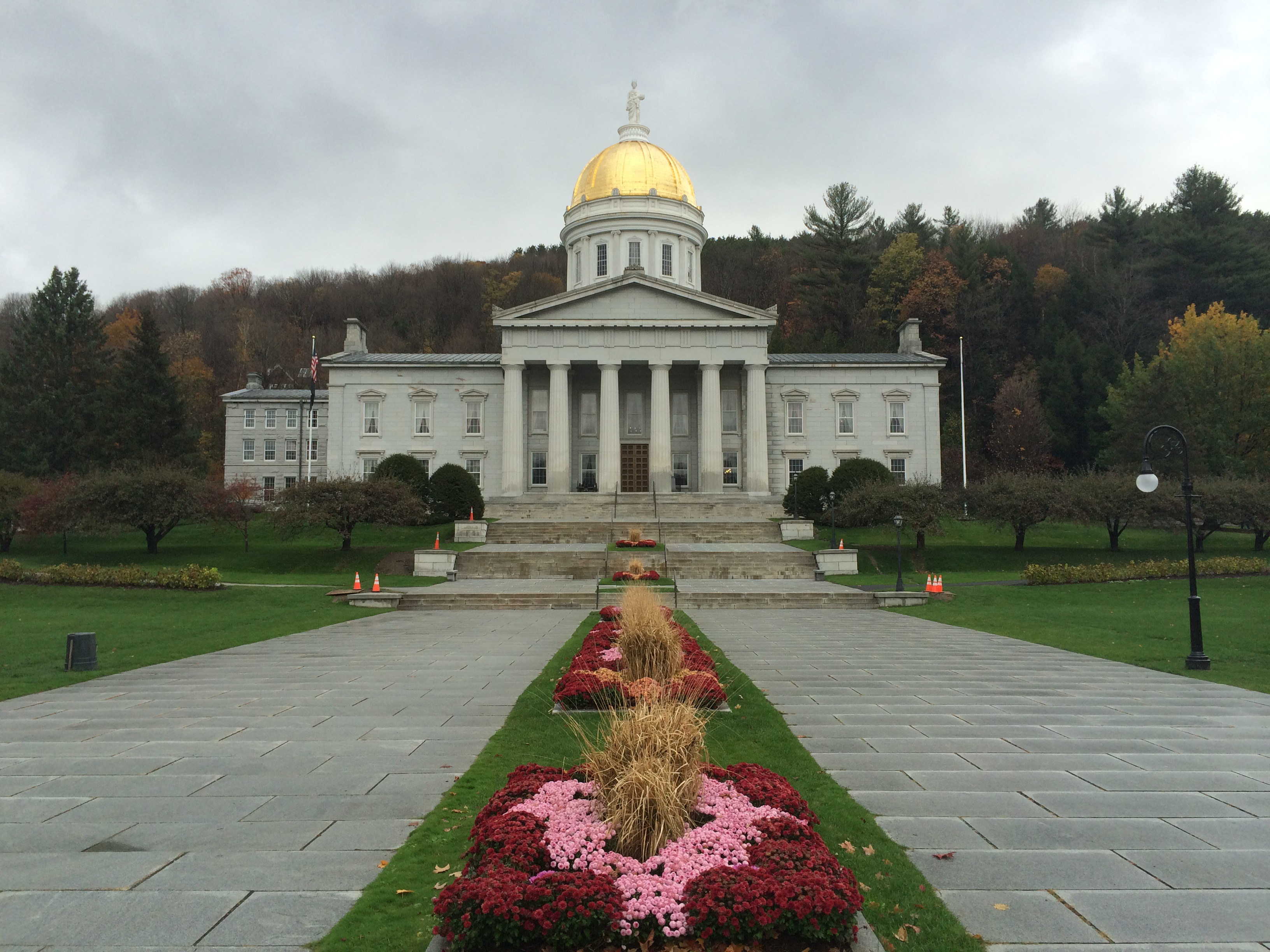 The Vermont State House, located in Montpelier, is the state capitol of Vermont, United States and the seat of the Vermont General Assembly. Photographed by Justin A. Wilcox on October 18, 2014.